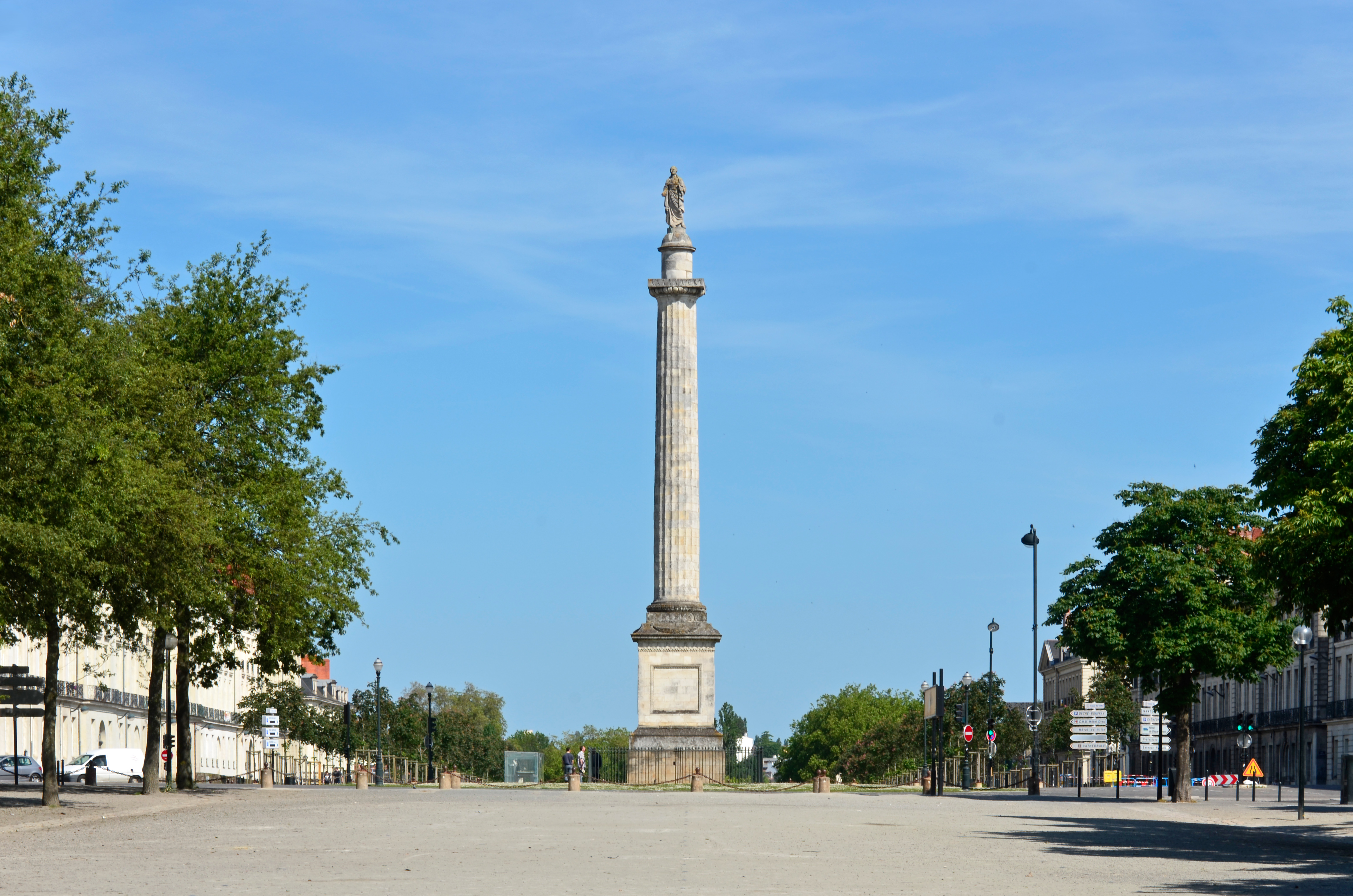 Louis XVI column (statue by Johann Dominik Mahlknecht) - Nantes, France